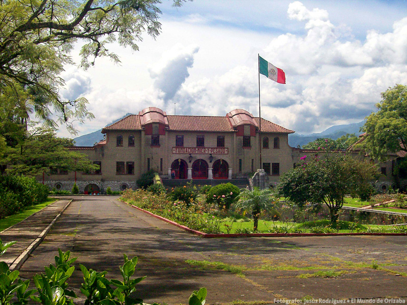 Mier and pesado